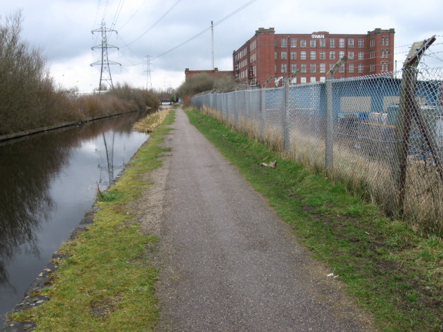 Rochdale Canal near Middleton Junction